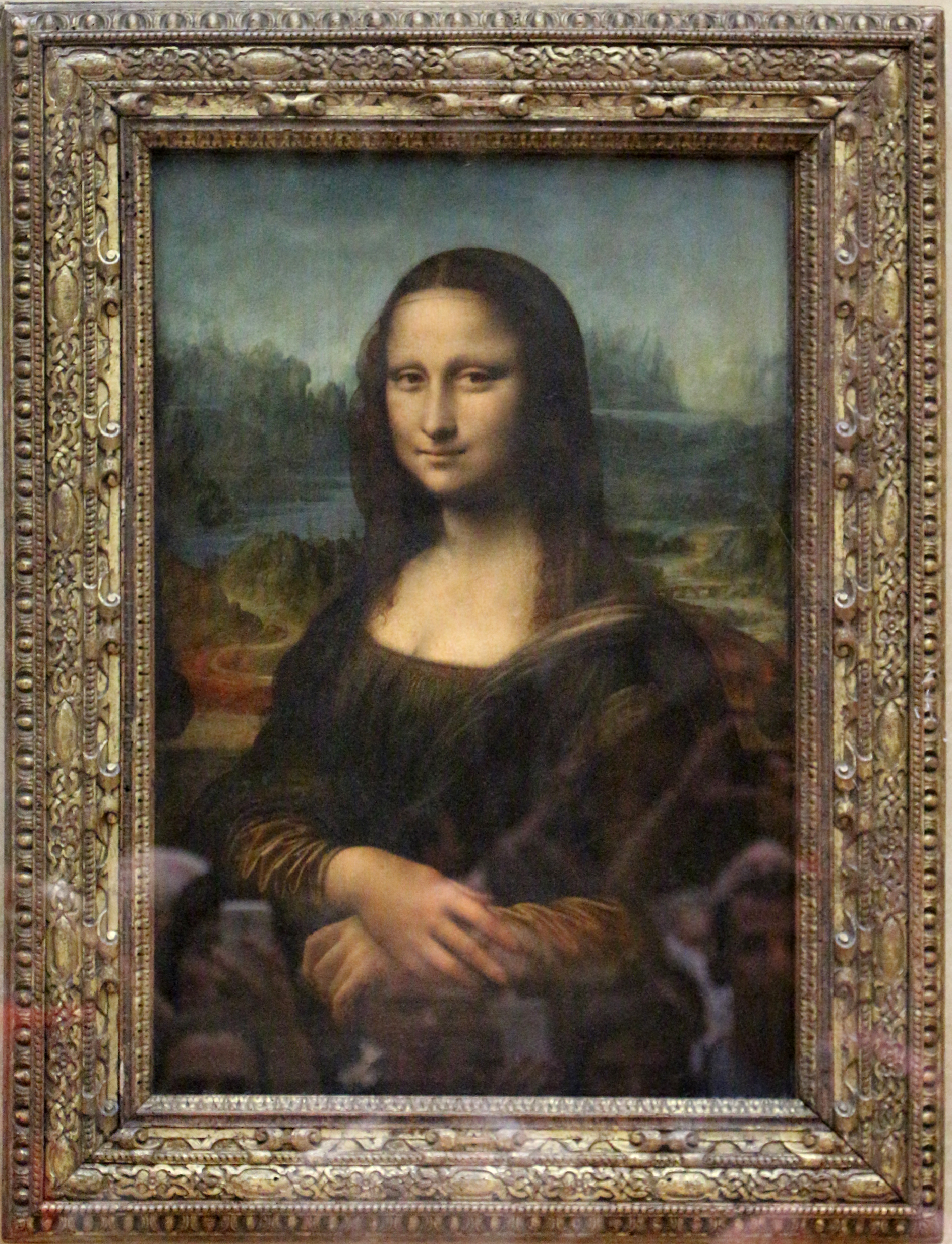 Paintings from Italy in the Louvre